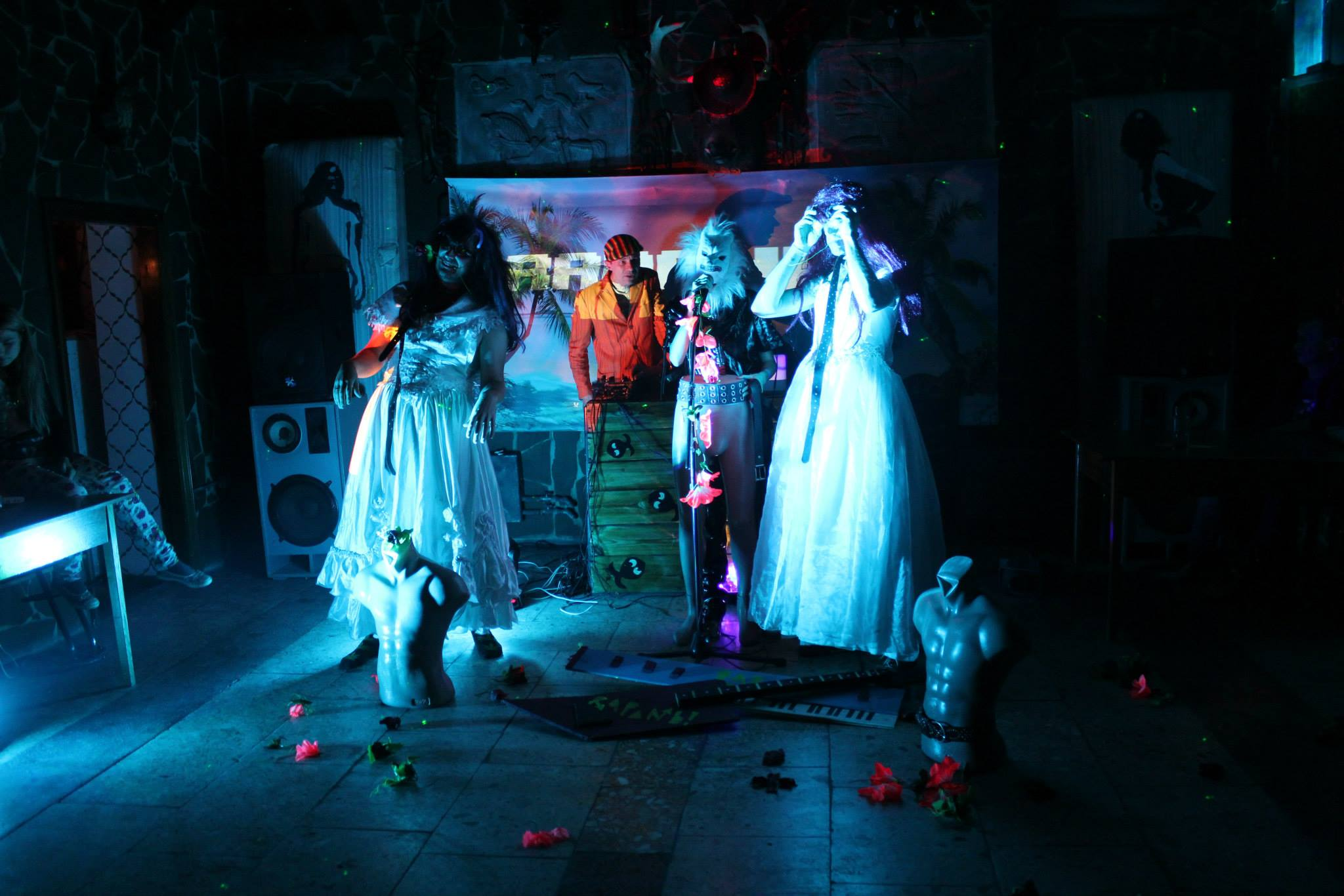 концерт на острові Бірючий 2015